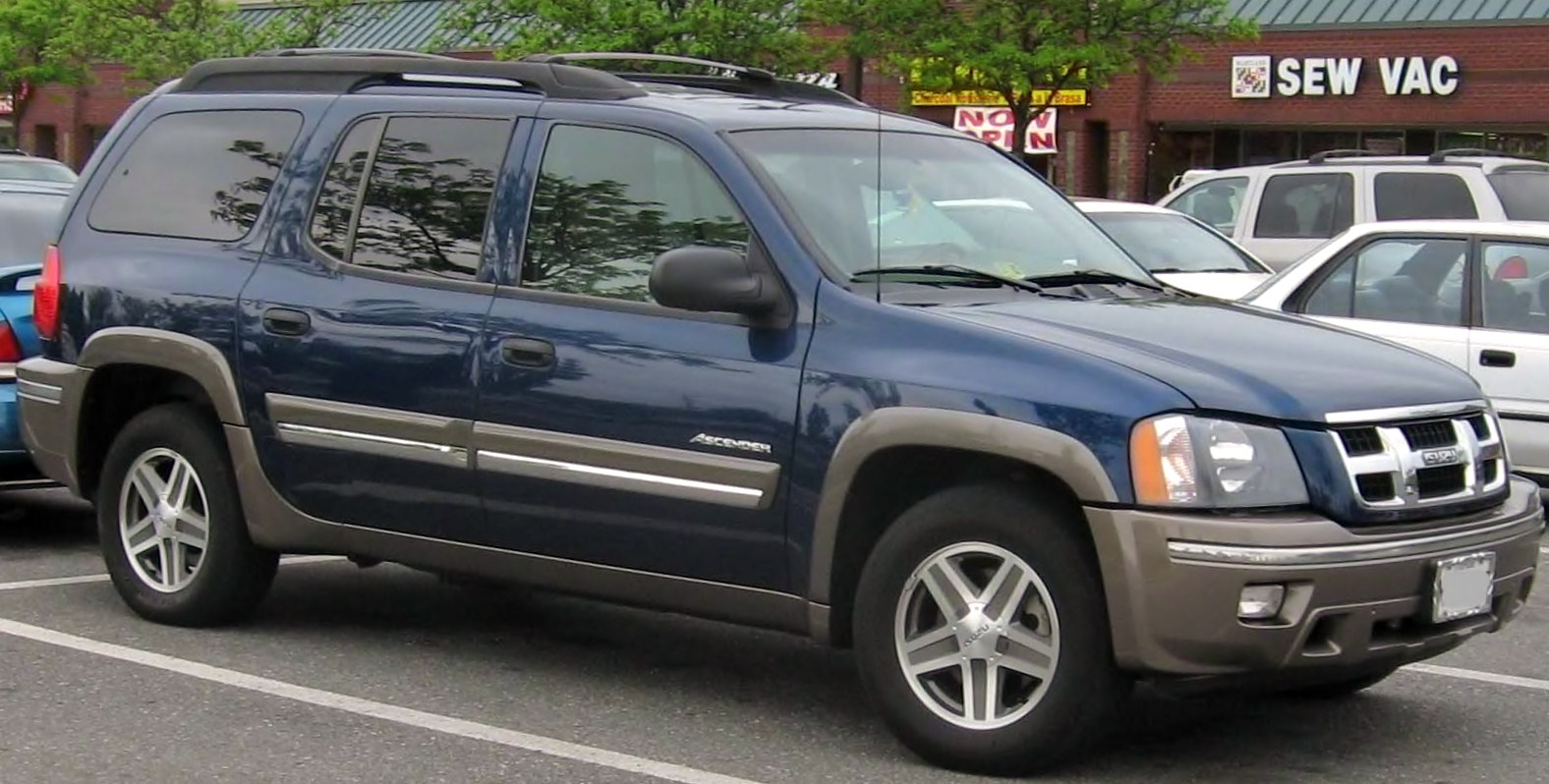 Isuzu Ascender photographed in USA.